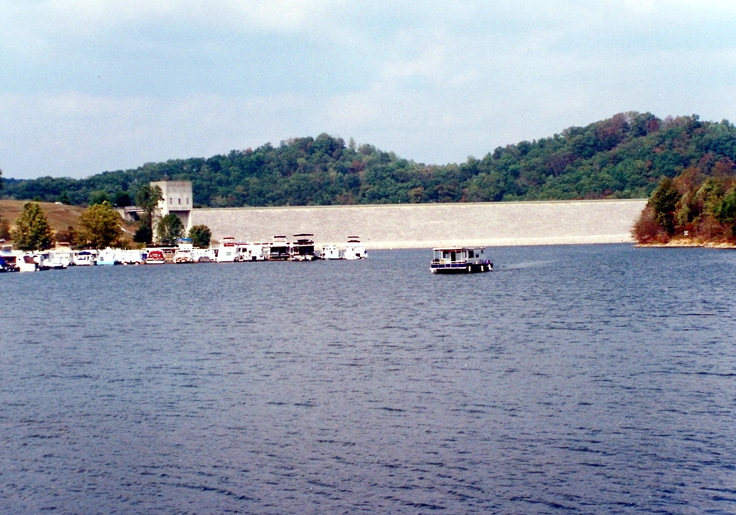 Grayson Lake and Grayson Dam in Carter County, Kentucky, USA.